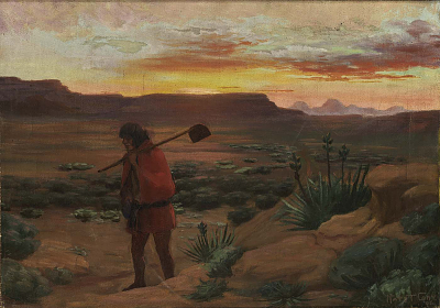 Hopi Indian with a hoe across his shoulder